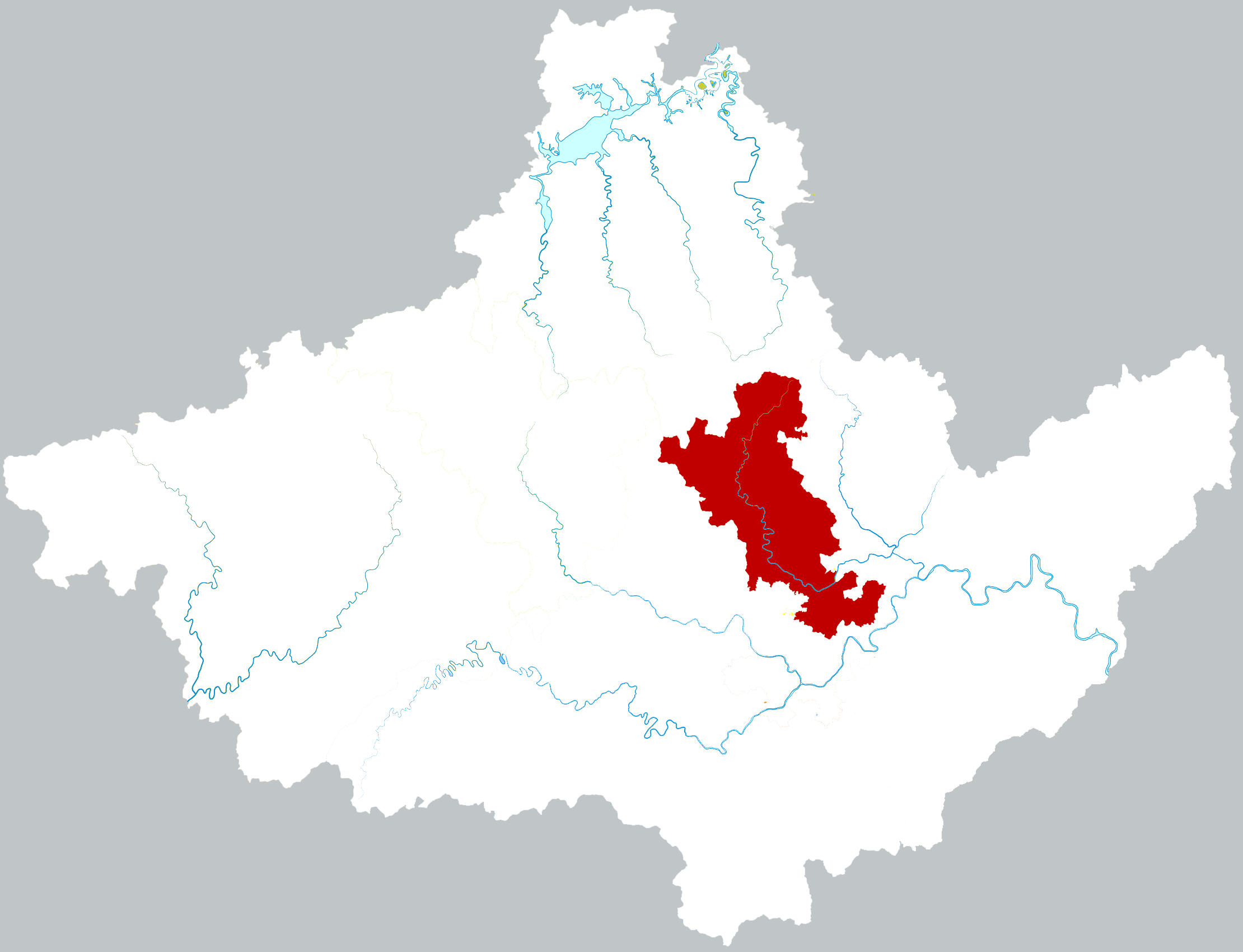 Location of Huizhou district in Huangshan city, China